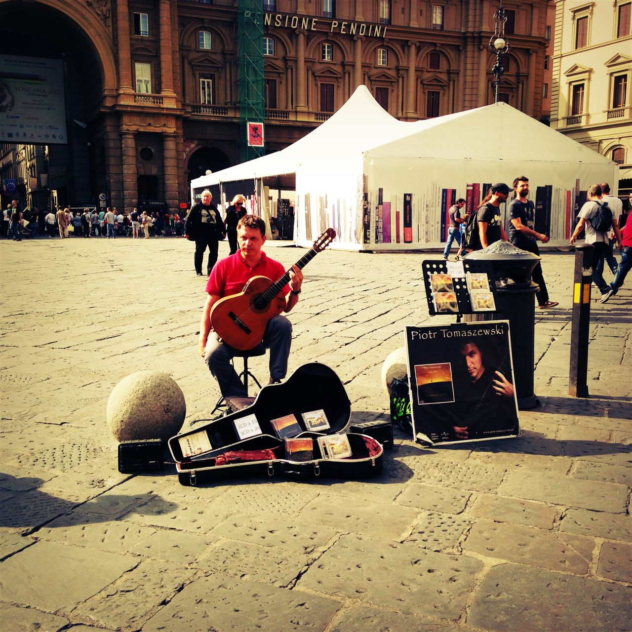 Street Music, classical guitar